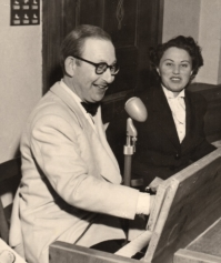 Inge and Otto Kollmann 1950